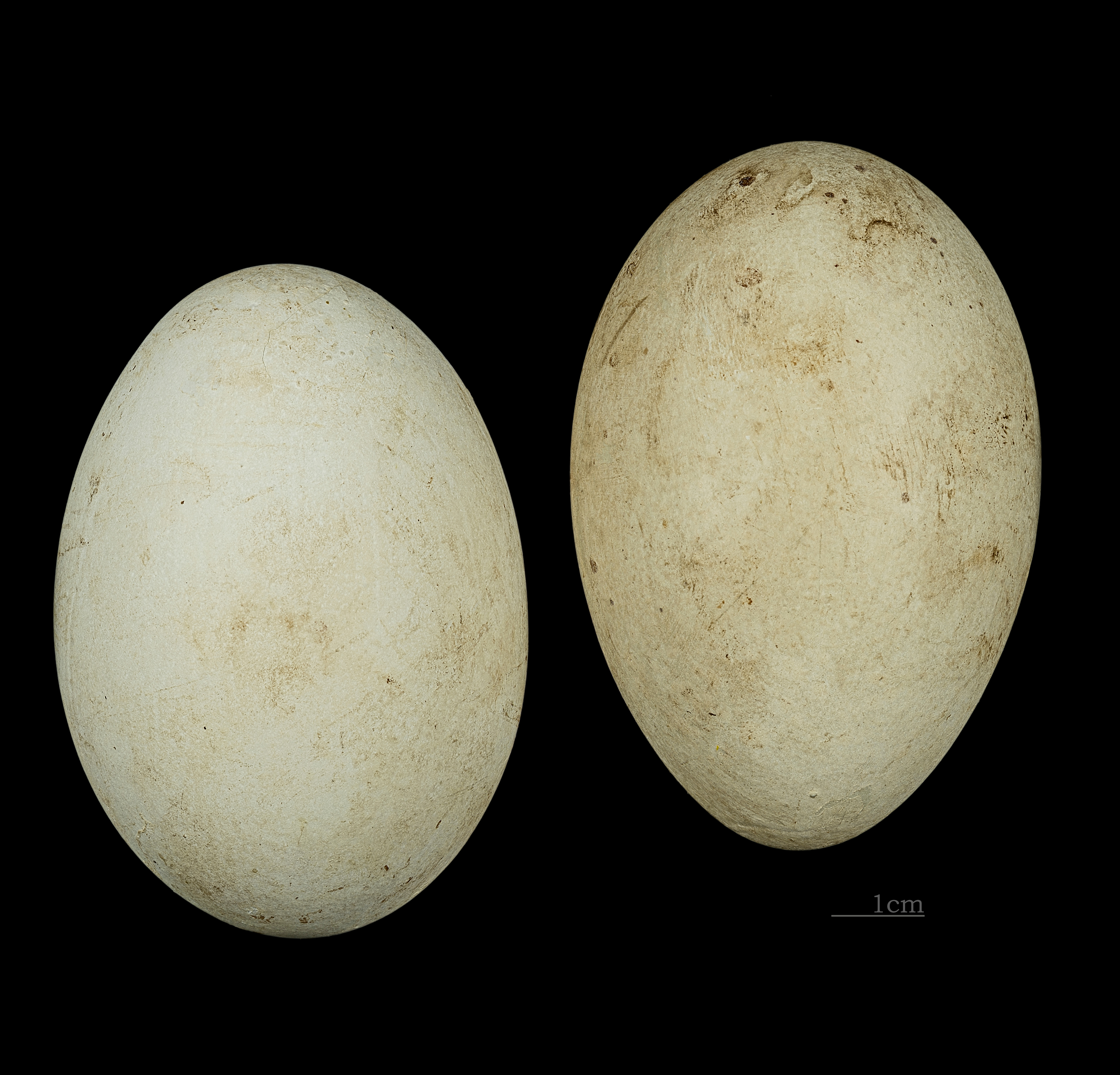 Egg of Grey Crowned-Crane (East African) Collection of René de Naurois / Jacques Perrin de Brichambaut.